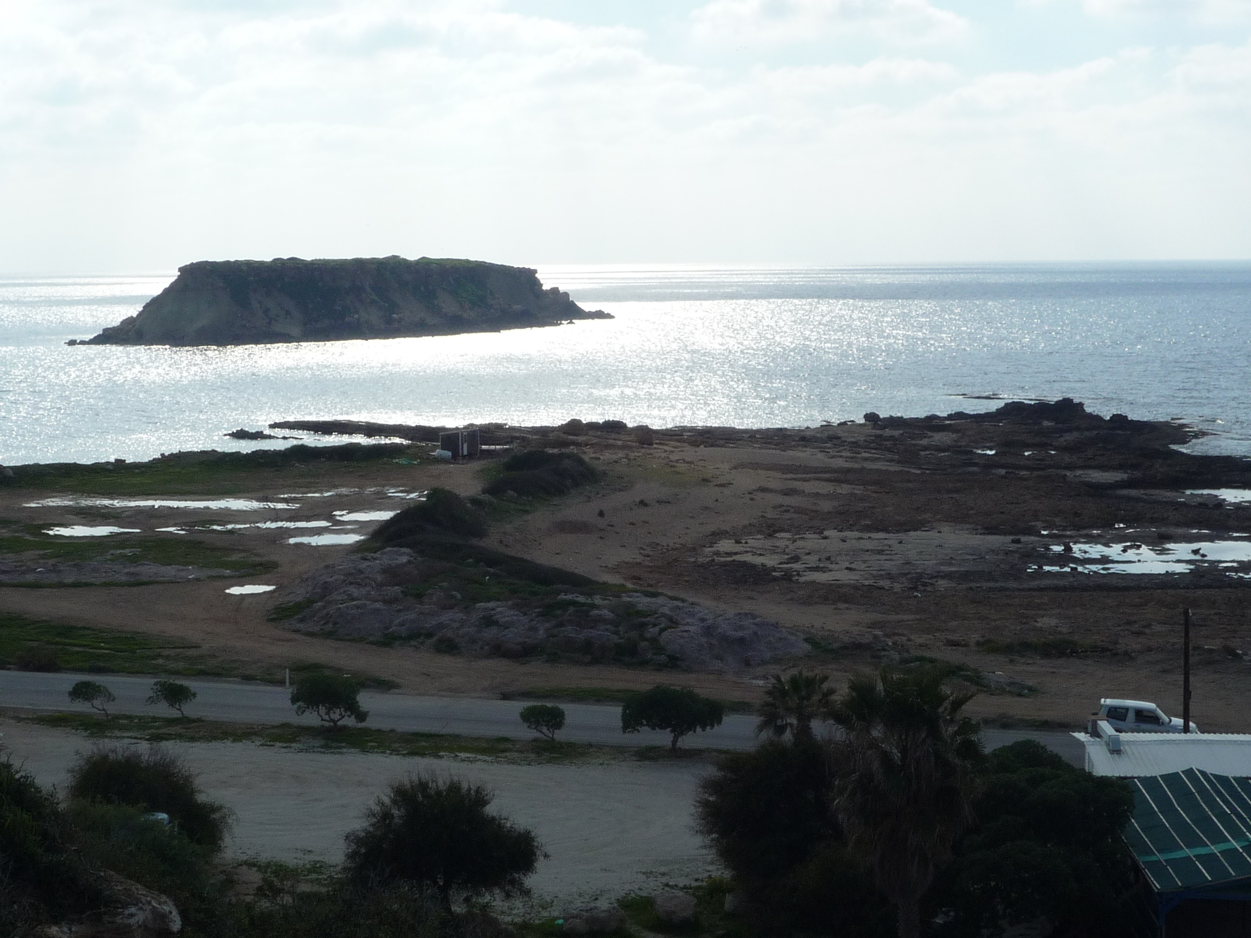 Yeronisos Island, Peyia, Paphos, Cyprus seen from Agios Georgios Pegeias. "Most of the surface of this small island is covered with ruins which date to a time when Egypt ruled Cyprus, specifically to the time of Queen Cleopatra"[1]. It has been the subject of a twenty years of archaeology.